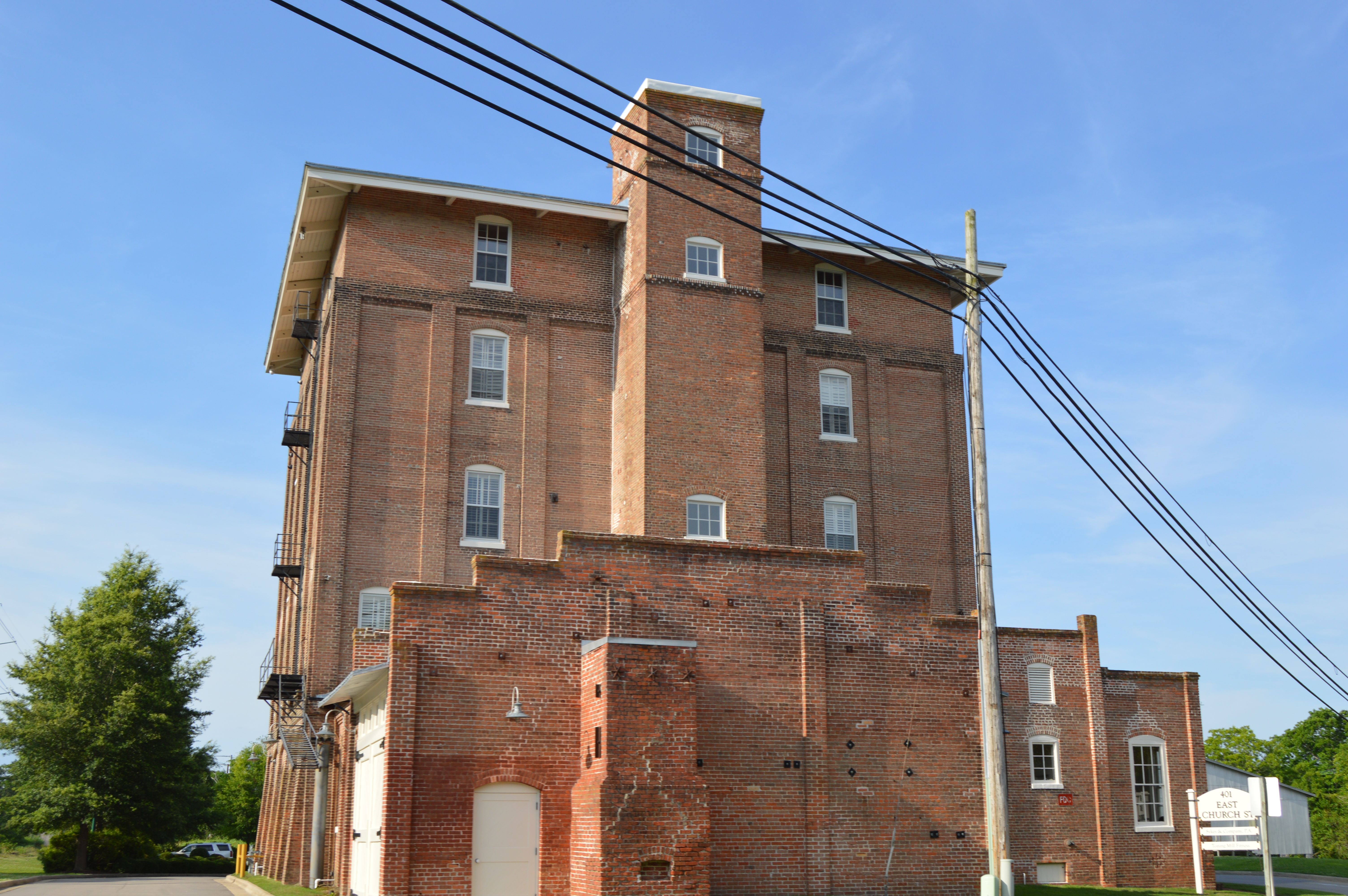 Front of the Edenton Cotton Mill, located on Church Street (North Carolina Highway 32) at Wood Street in Edenton, North Carolina, United States. Built in 1916, it is the core component of a historic district that is listed on the National Register of Historic Places.